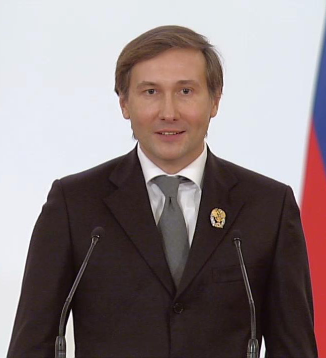 Nikolai Lebedev at the ceremony, State Awards of the Russian Federation for 2013